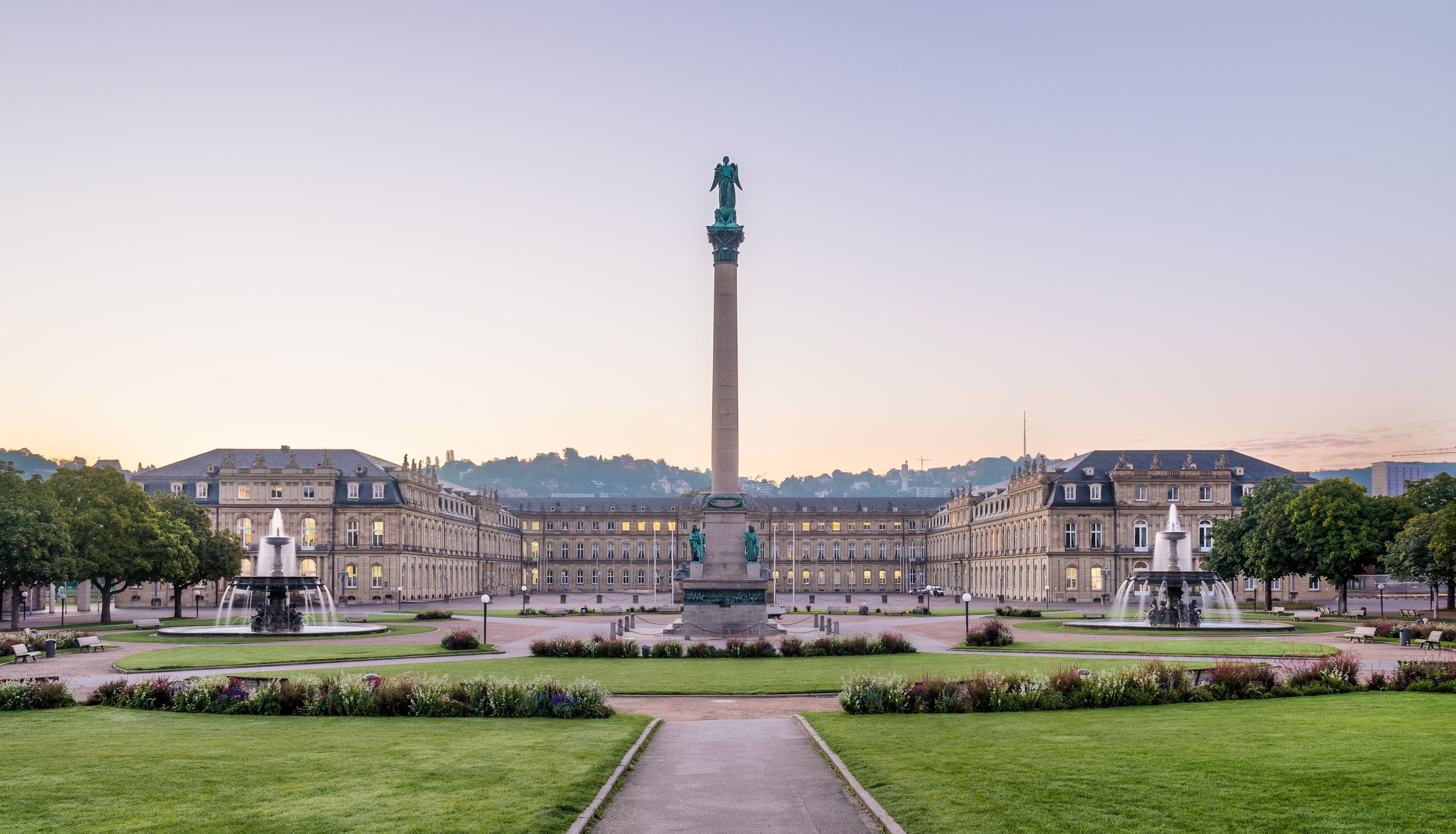 Neues Schloss (new palace), Schlossplatzspringbrunnen, Jubiläumssäule (Schlossplatz, Stuttgart, Germany).